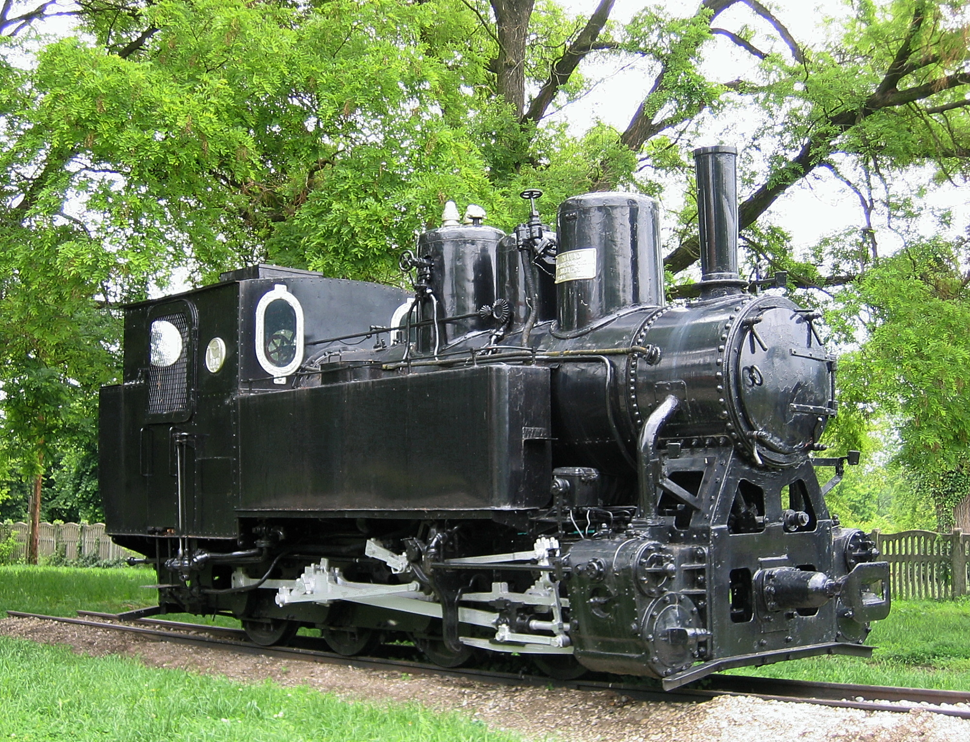 MÁV 490.057 at Nagycenk railway museum.